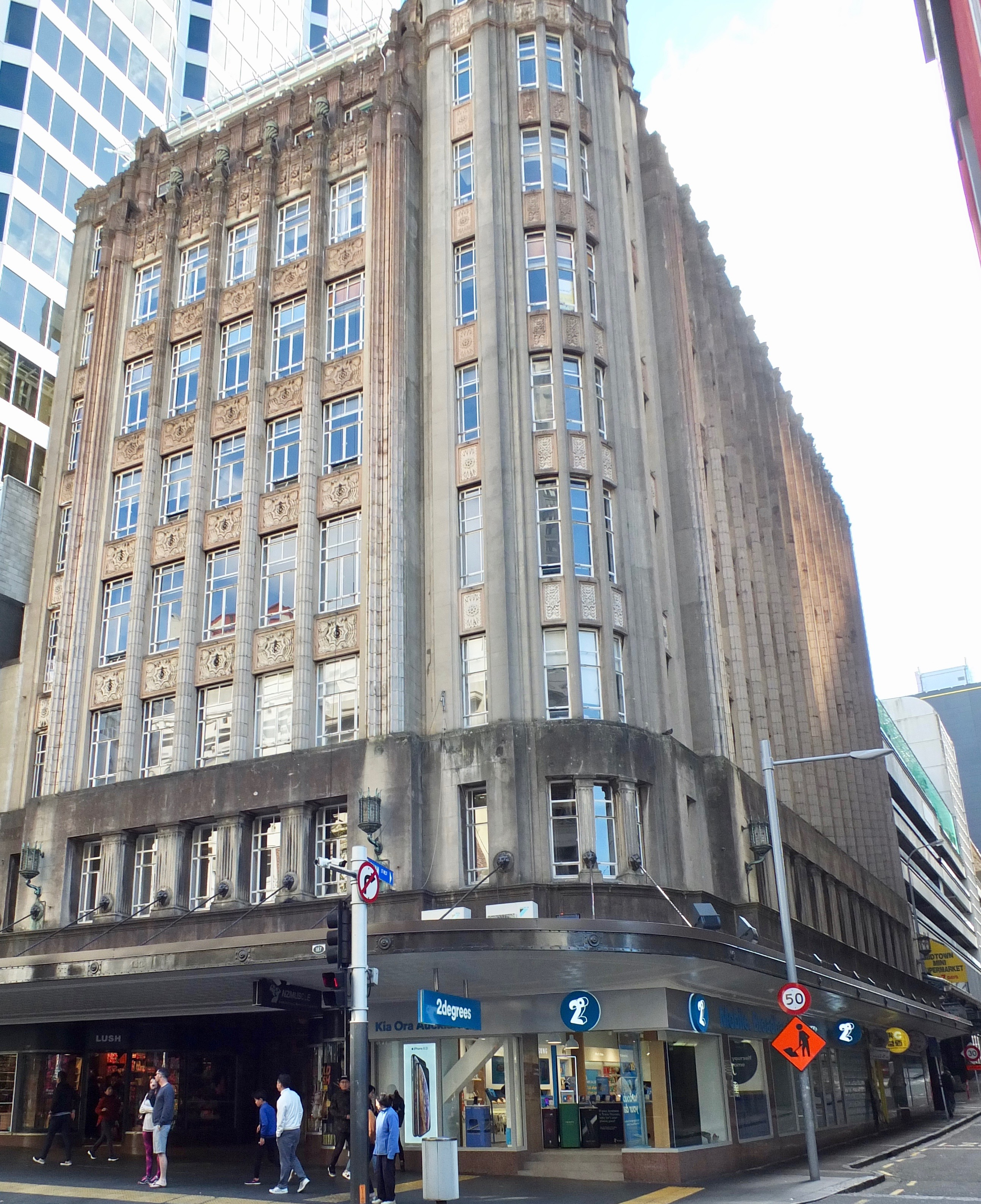 179 Queen Street, Auckland, New Zealand, the store front from 1936 to the early '50s of "Trilby Yates" fashion label. The workroom at 26 Durham Street West, the street to the right, has not survived.